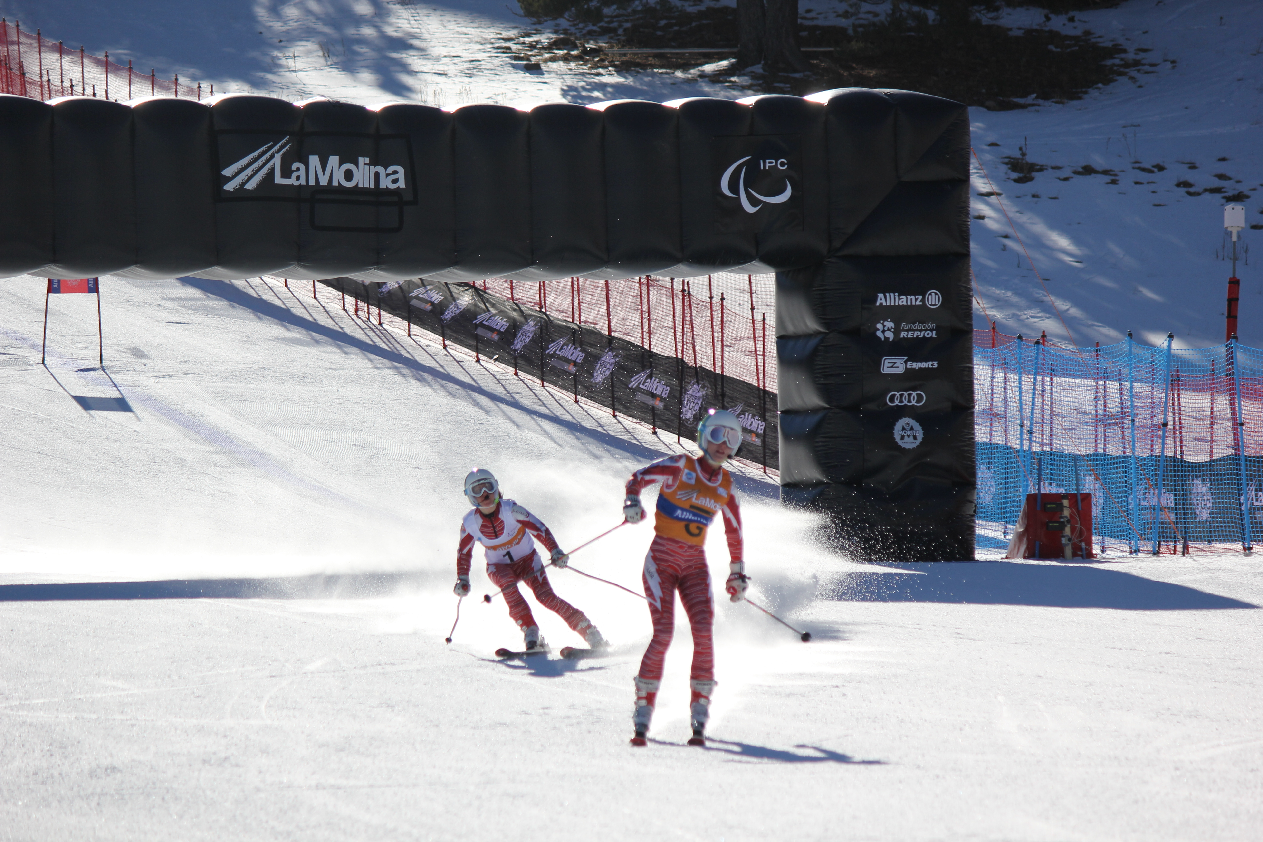 2013 IPC Alpine World Championships at La Molina in Spain. Day 1. Downhill final. Skier Henrieta Farkasova and guide Natalia Subtrova.